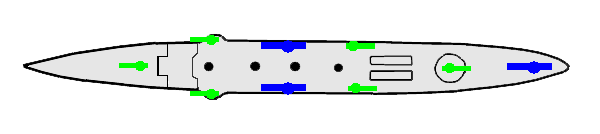 Plan of a Draug class destroyer. Based on original found online. Guns in green, torpedotubes in blue.